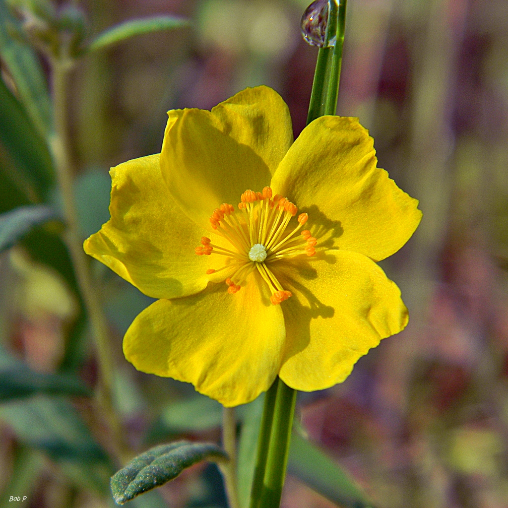 Pinebarren frostweed hugging a dewy blade of grass at Frenchman's Forest Natural Area.